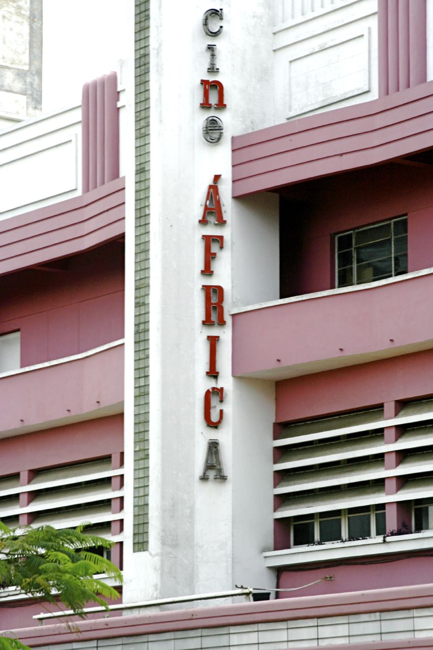 CineAfrica, Maputo, Mozambique